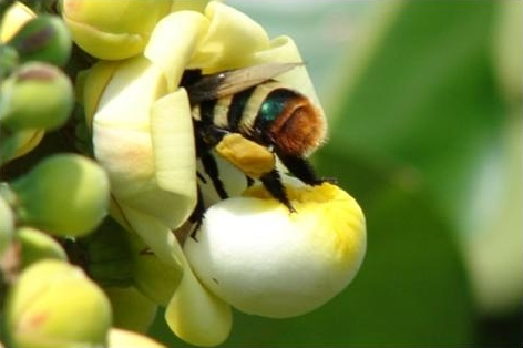 Eulaema meriana female: Approach to flowers of Brazil nut (Bertholletia excelsa) by distinct bee species in a commercial cultivation in the county of Itacoatiara, state of Amazonas, Brazil, 2007